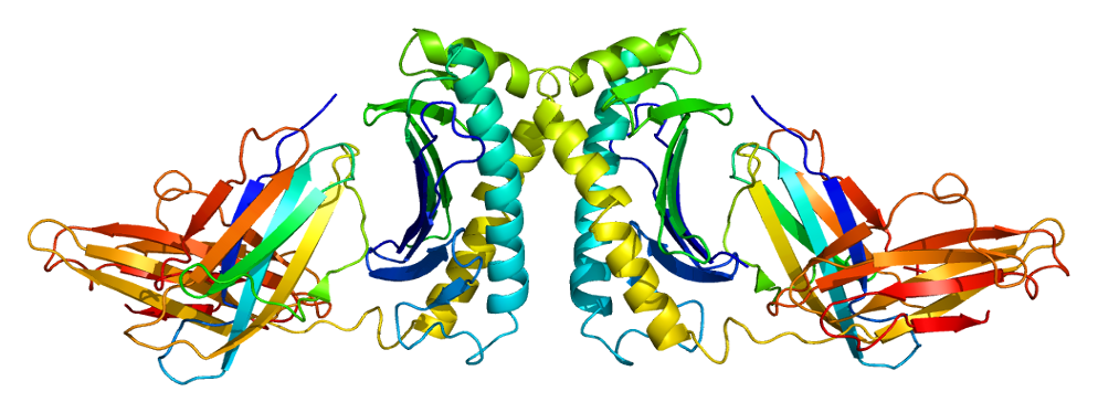 Structure of the HFE protein. Based on PyMOL rendering of PDB 1a6z.